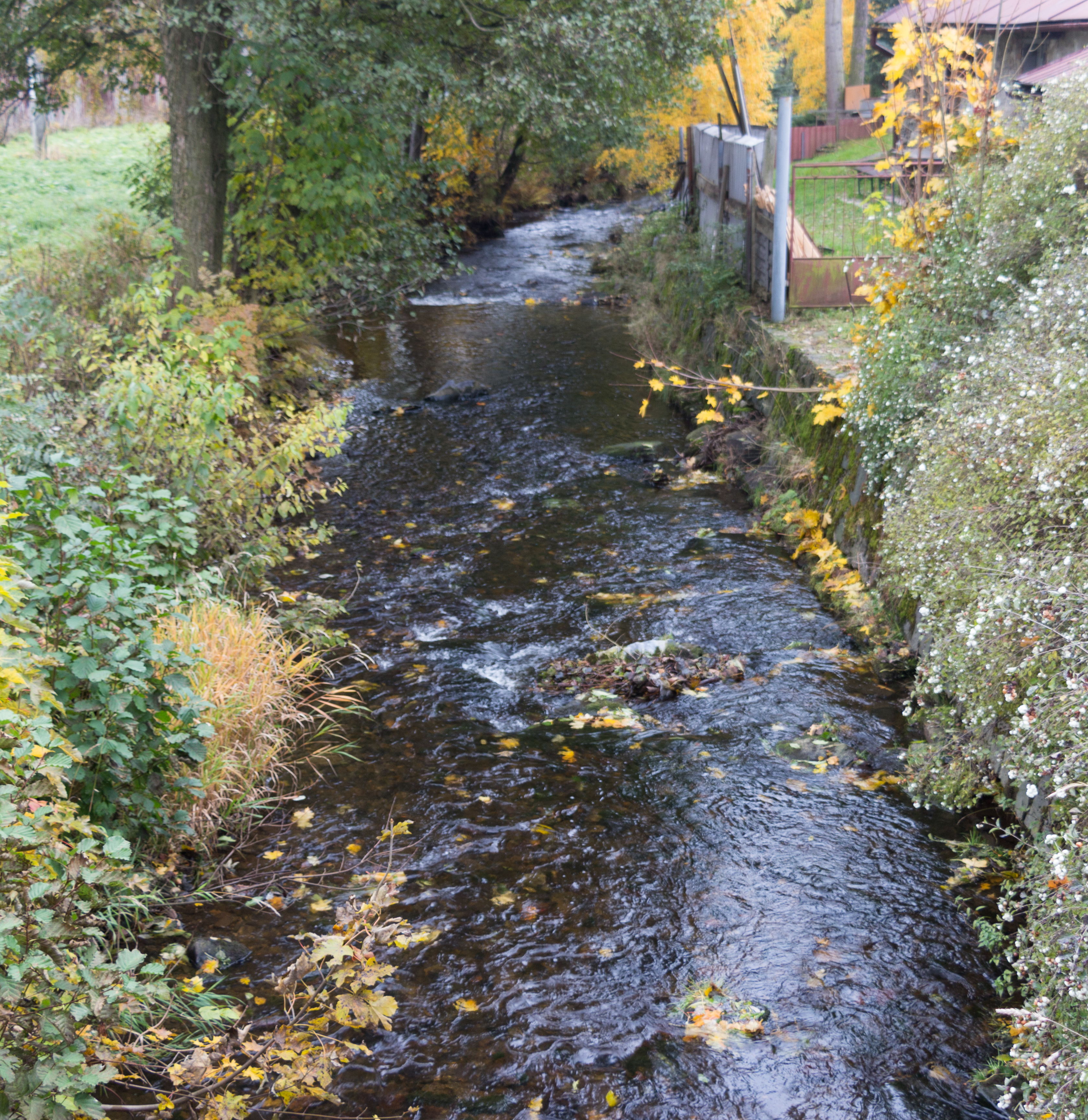 Podolský potok. Stará ves in Bruntál District, Czech Republic.